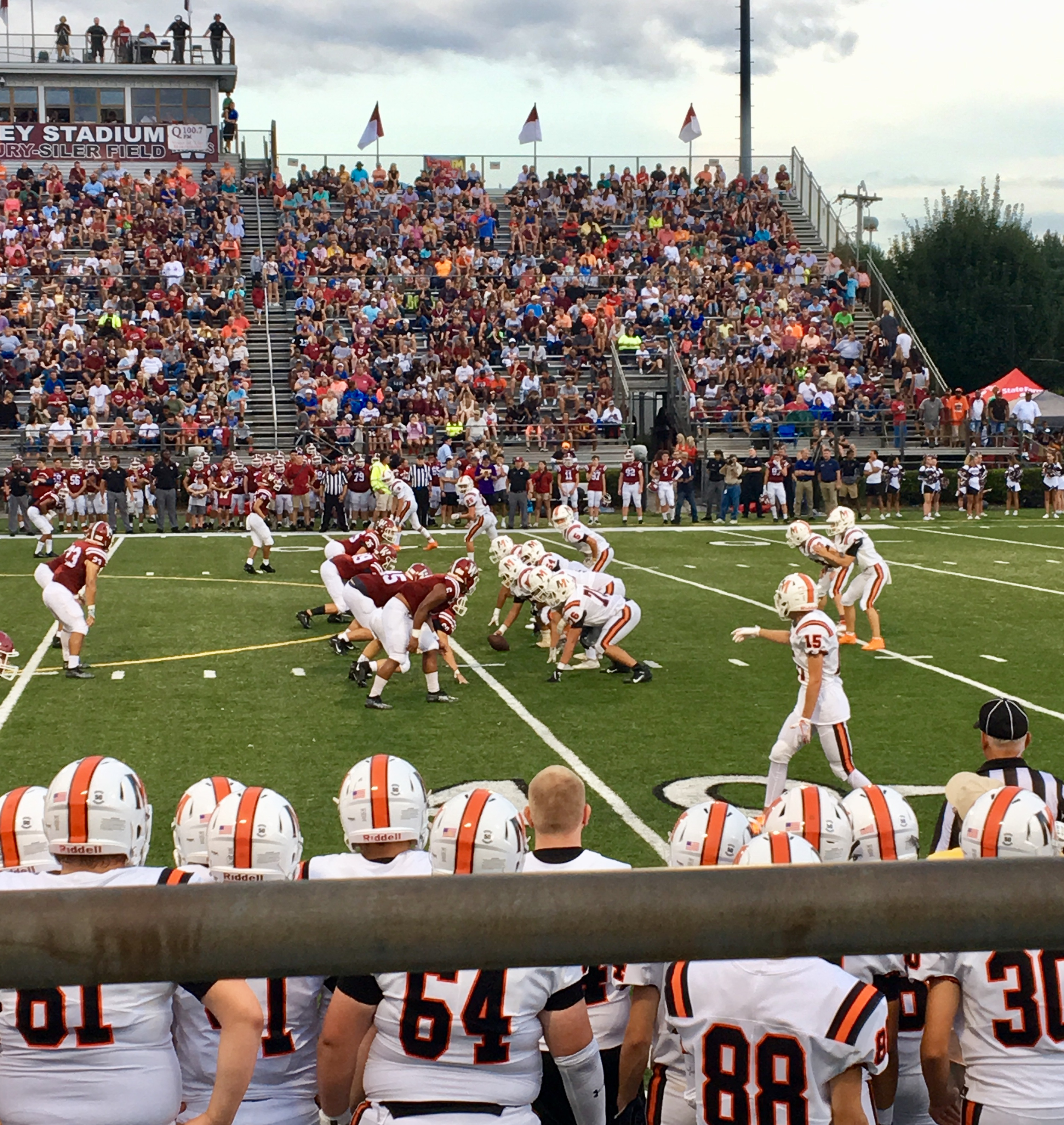 The 2019 Morristown East vs. West Game at Burke-Toney Stadium in Morristown, Tennessee with the Hurricanes on Offense.